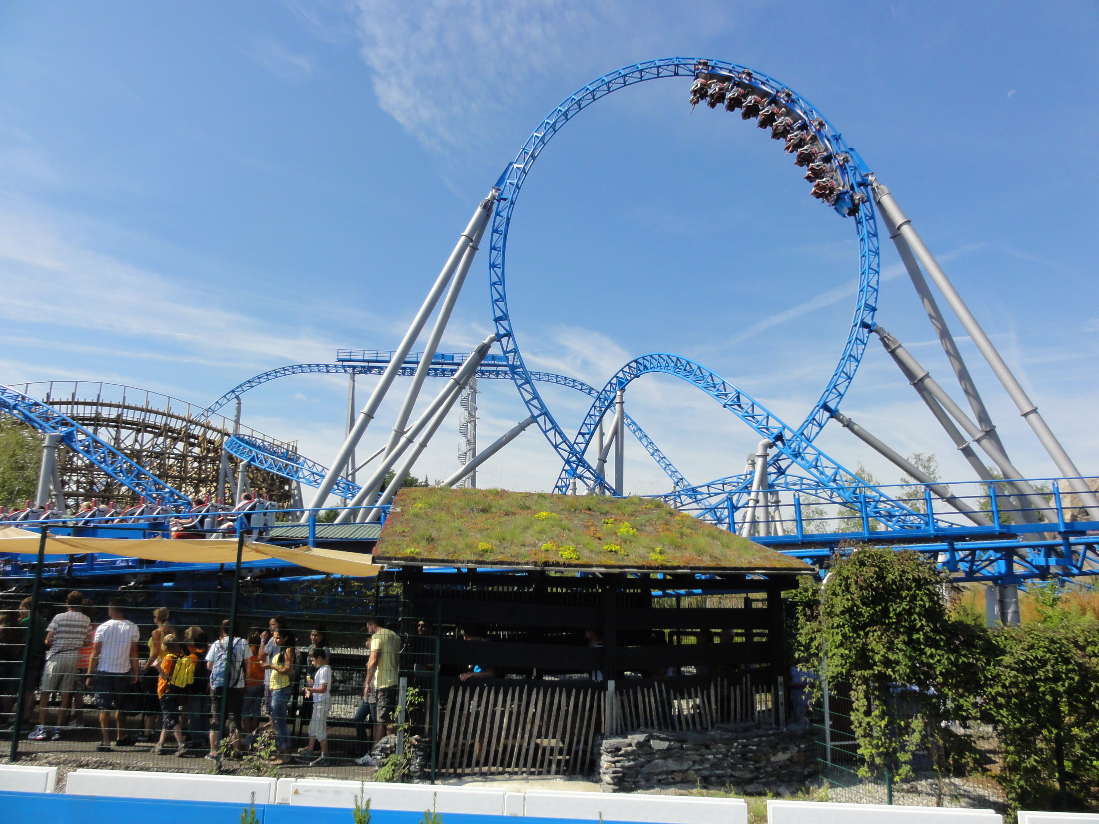 Blue Fire Megacoaster, Europa-Park, Rust, Baden-Württemberg, Germany.